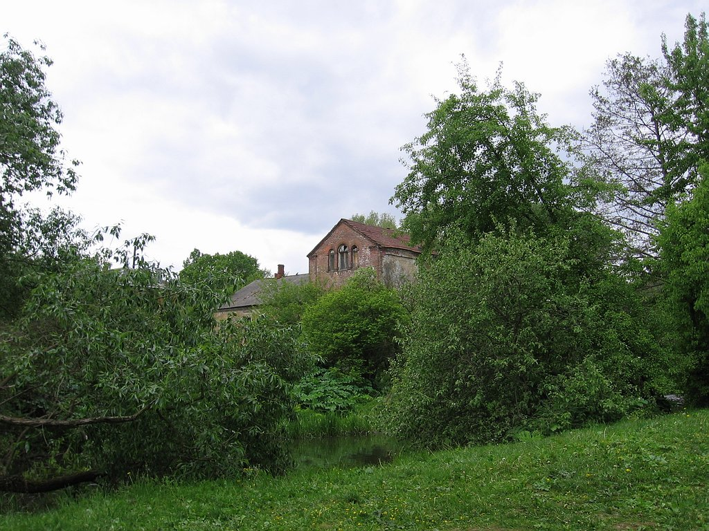 Old mill in Łošyca. Minsk, Belarus